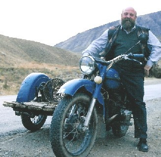 Prof. Korff